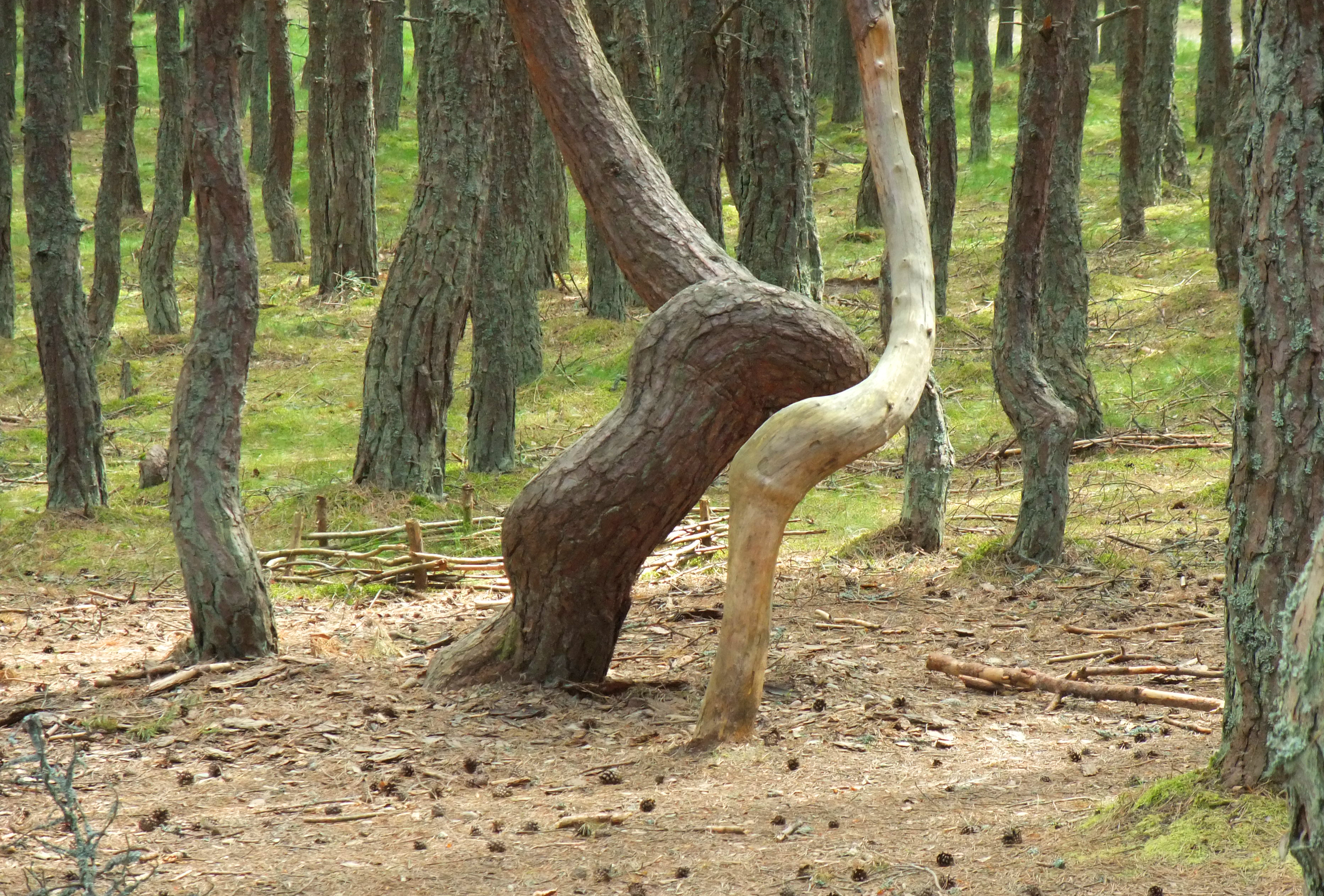 Drunk forest in Curonian Spit, Russia